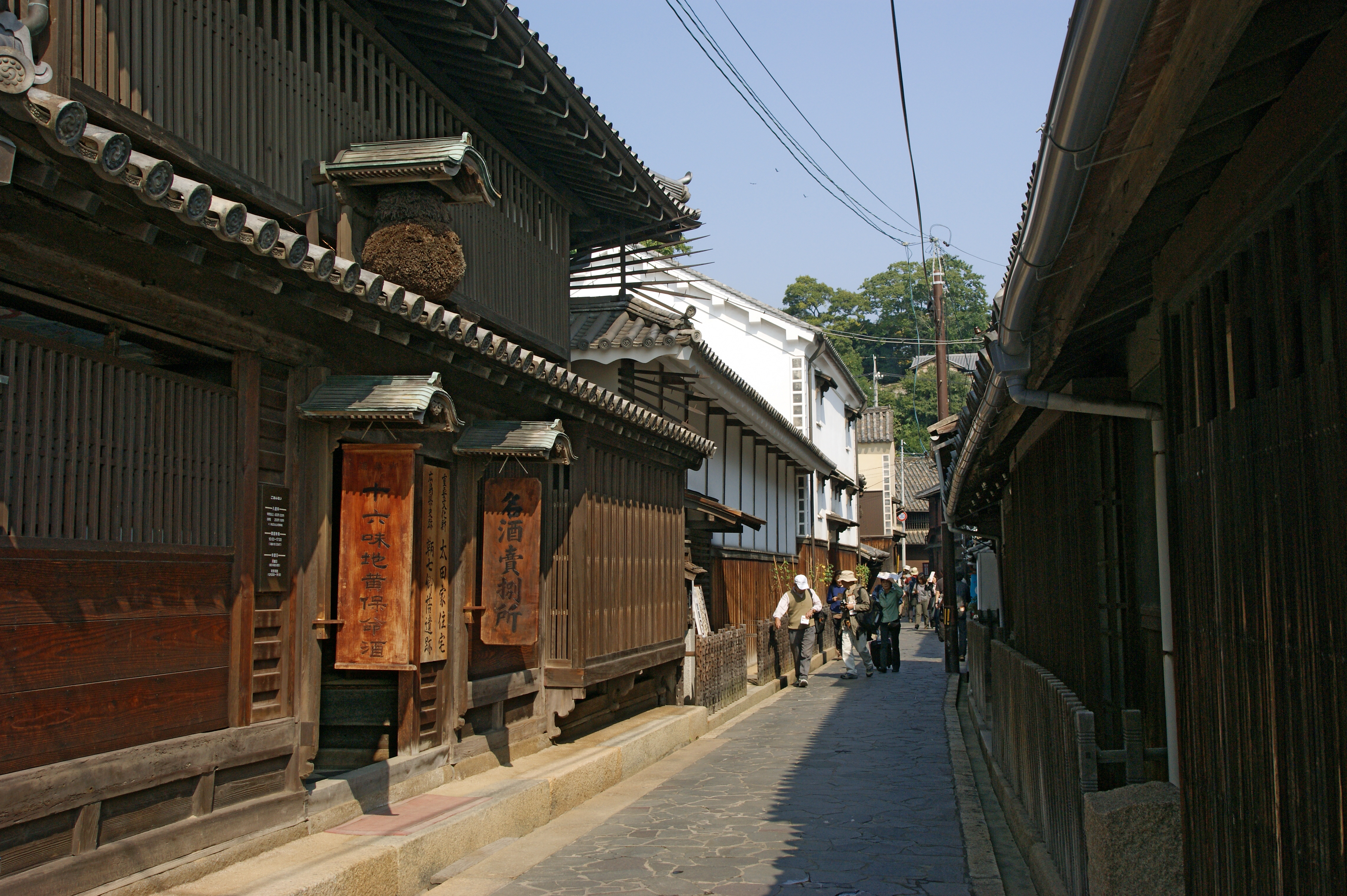 Ota House in Fukuyama, Hiroshima Prefecture, Japan